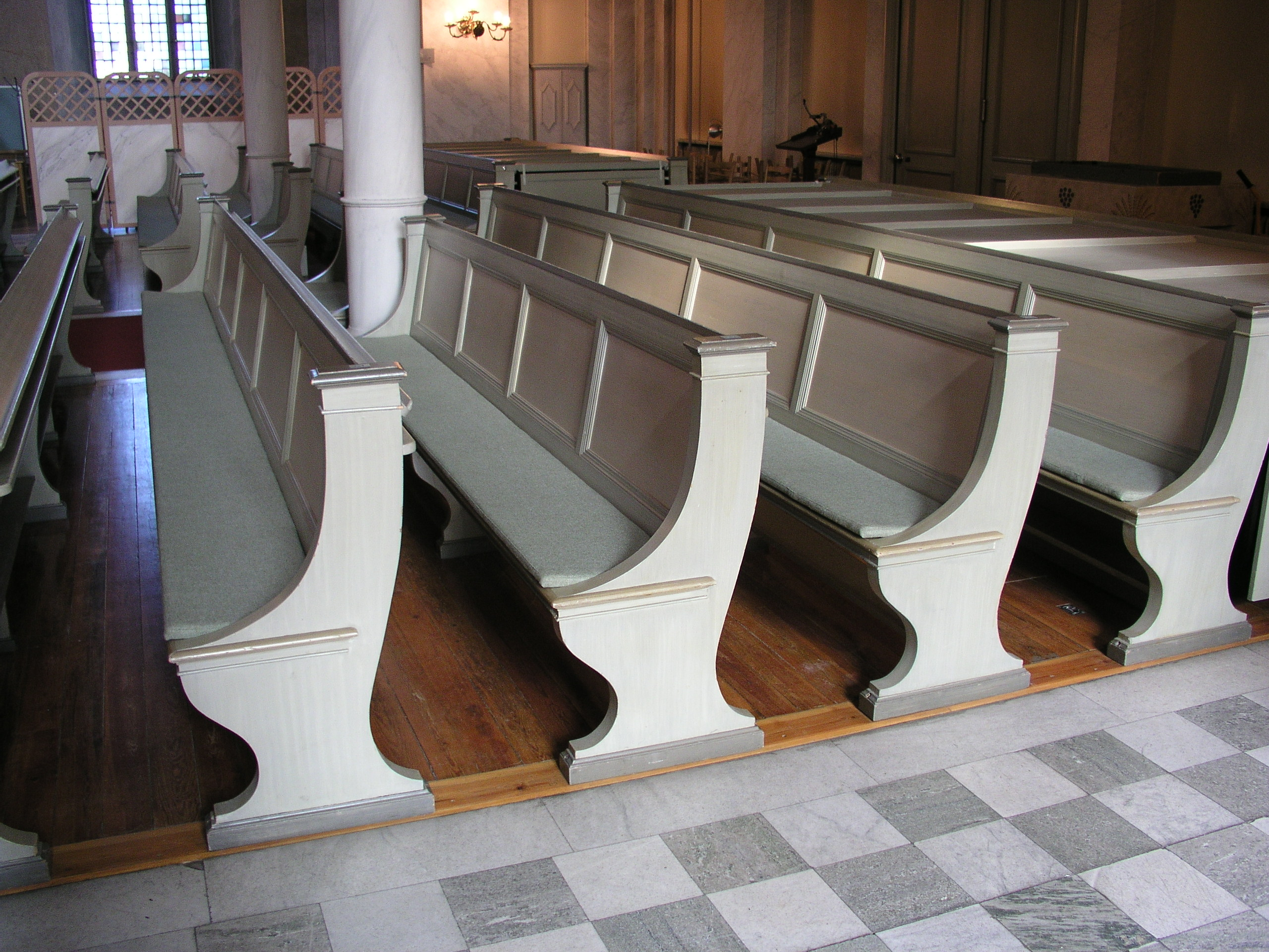 The church benches in the Gustaf Vasa church, Stockholm. Picture was taken in natural light. No correction (contrast, sharpness, brightness) has been made with the image.